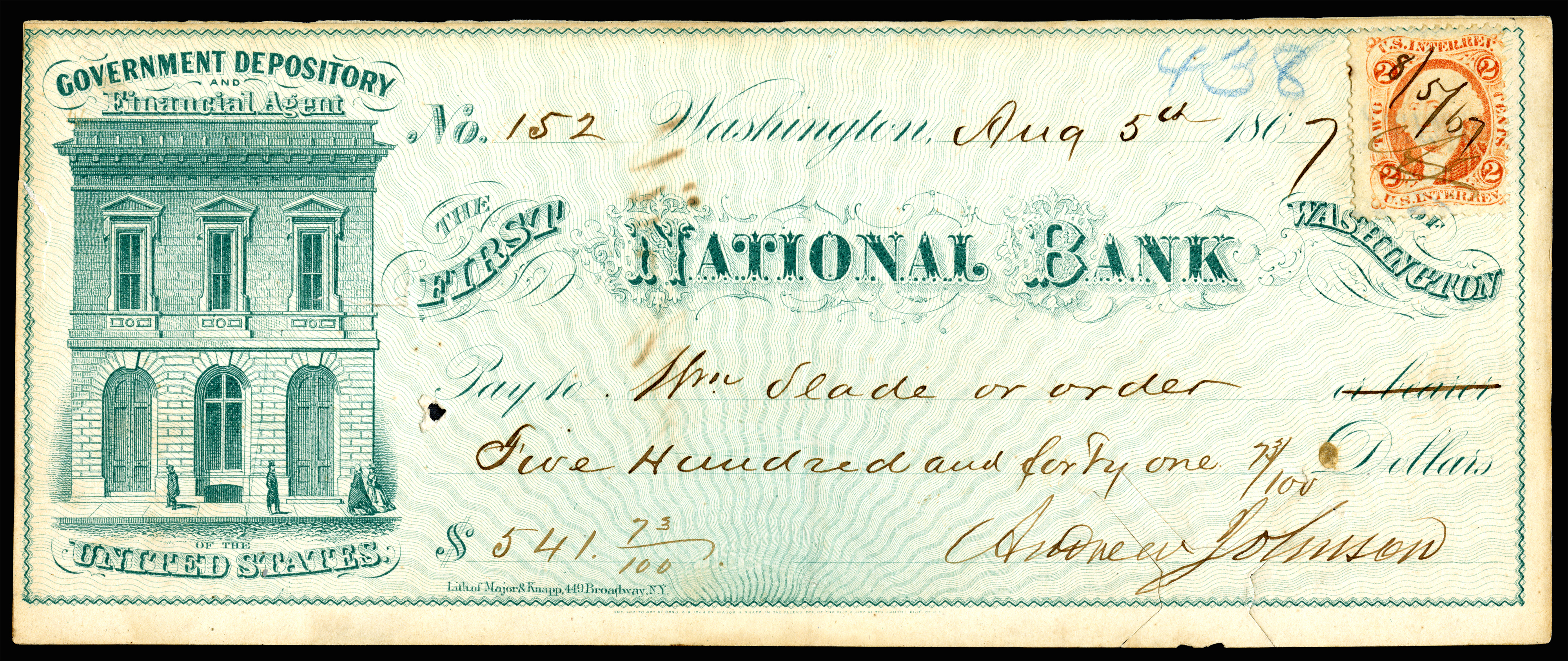 A signed check by Andrew Johnson while serving as the 17th President of the United States.